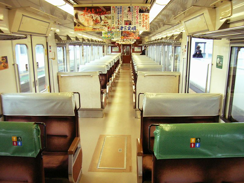 Interior of JNR117-100 train stopped at Omi-Maiko Station, January 1, 2008